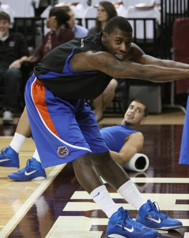 Casey Prather of the Florida Gators, with teammate Scottie Wilbekin in the background